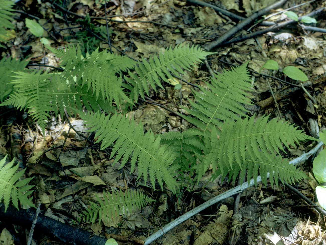 Thelypteris noveboracensis (L.) Nieuwl. - New York fern